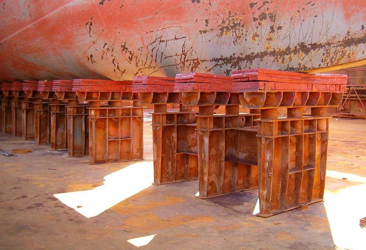 Keelblocks on the floating dock in Shiprepair Yard 'Remontowa' in Gdansk, Poland.